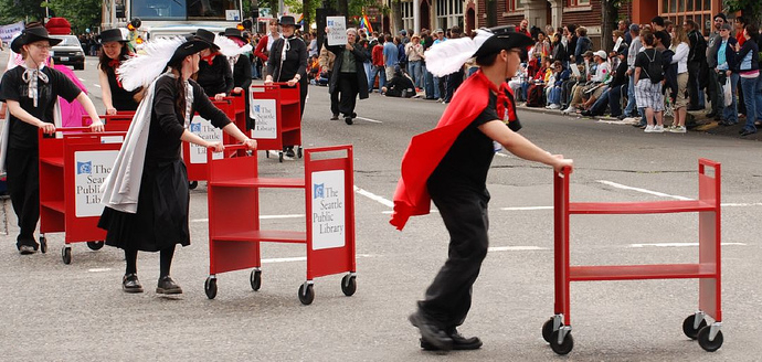 Seattle Public Library book cart drill team near the intersection of 4th Ave and Battery St, Seattle, Washington, USA.